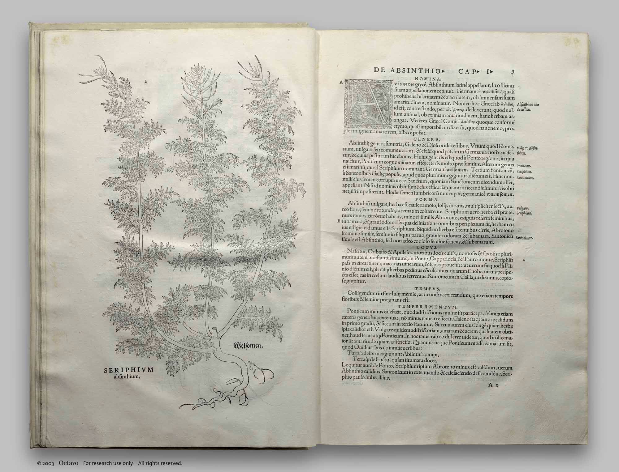 Page-spread from the "De Historia Stirpium" by Leonhart Fuchs printed by Michel Isingrin about 1542. Copy from the Warnock Library